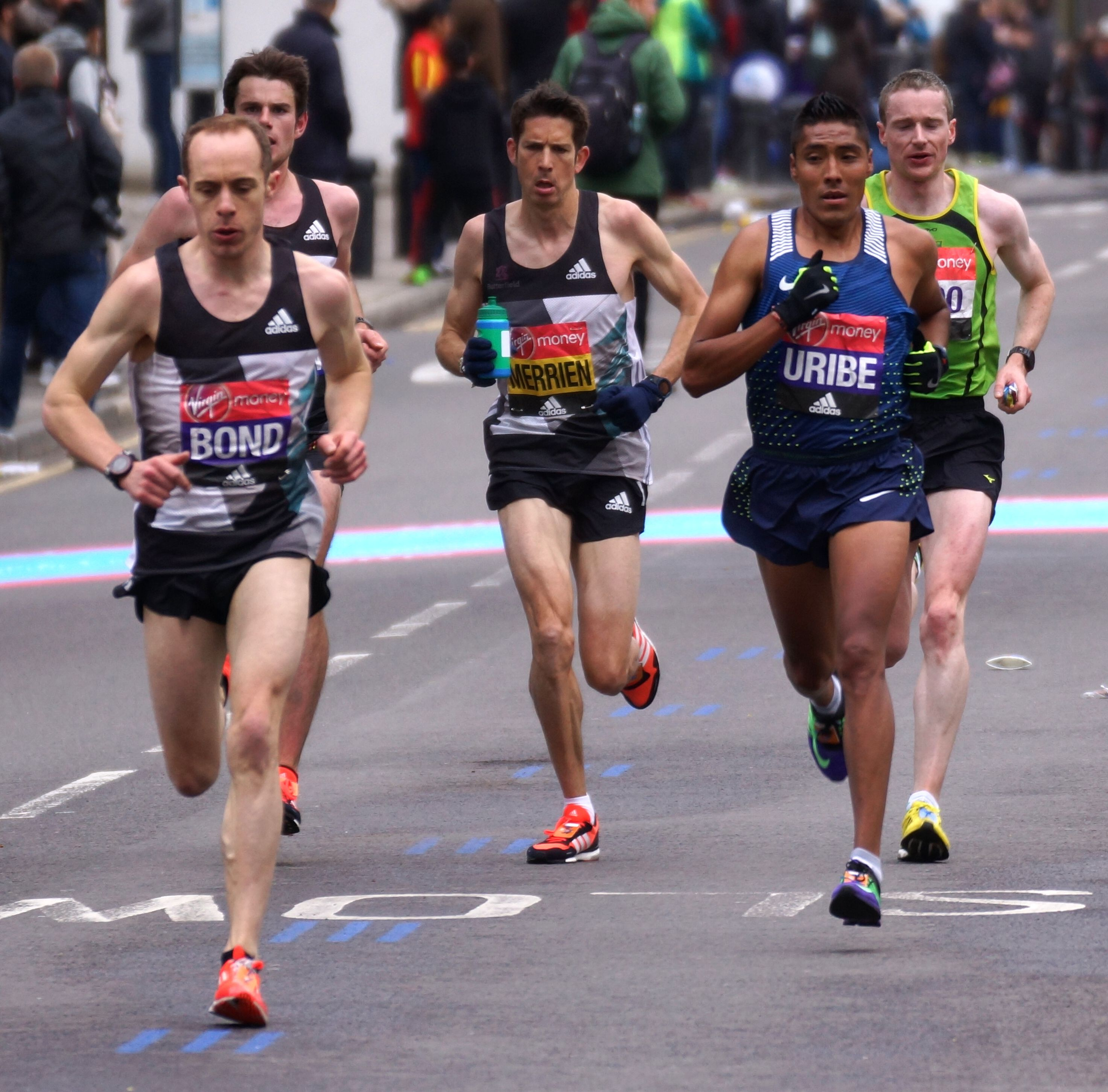 Antonio Uribe, Lee Merrien, Mathew Bond. Possibly Callum Hawkins & Sean Hehir behind. Photograph taken by Julian Mason on 24th April 2016 during the London Marathon. Location Westferry Road on the Isle of Dogs close to Arnhem Place and just before Millwall Outer Dock.